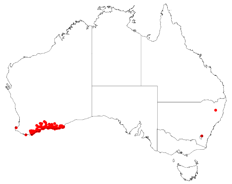 [Anigozanthos rufus occurrence data Downloaded from Australasian Virtual Herbarium 12 May 2017